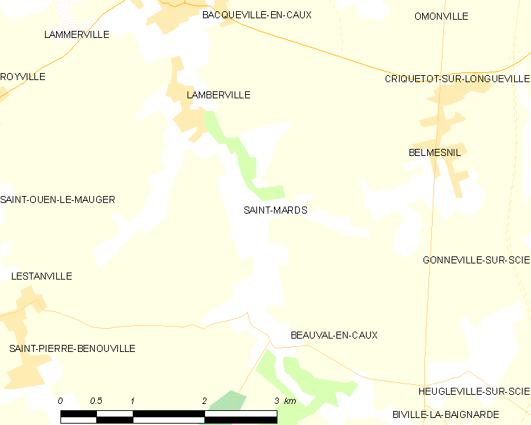 Map of French municipality Saint-Mards